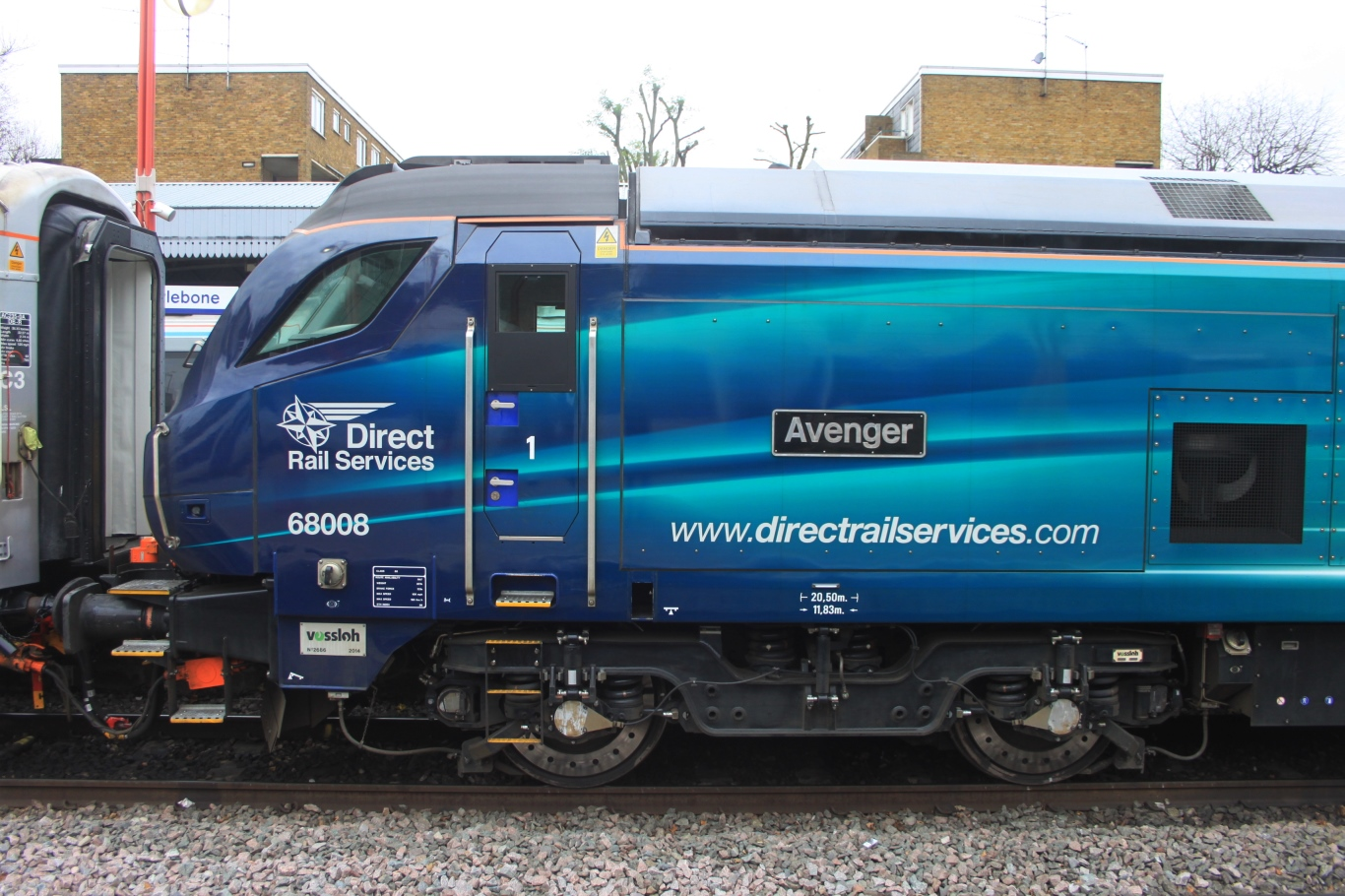 Direct Rail Services' 68008 Avenger at London's Marylebone station with a train for Birmingham Moor Street.